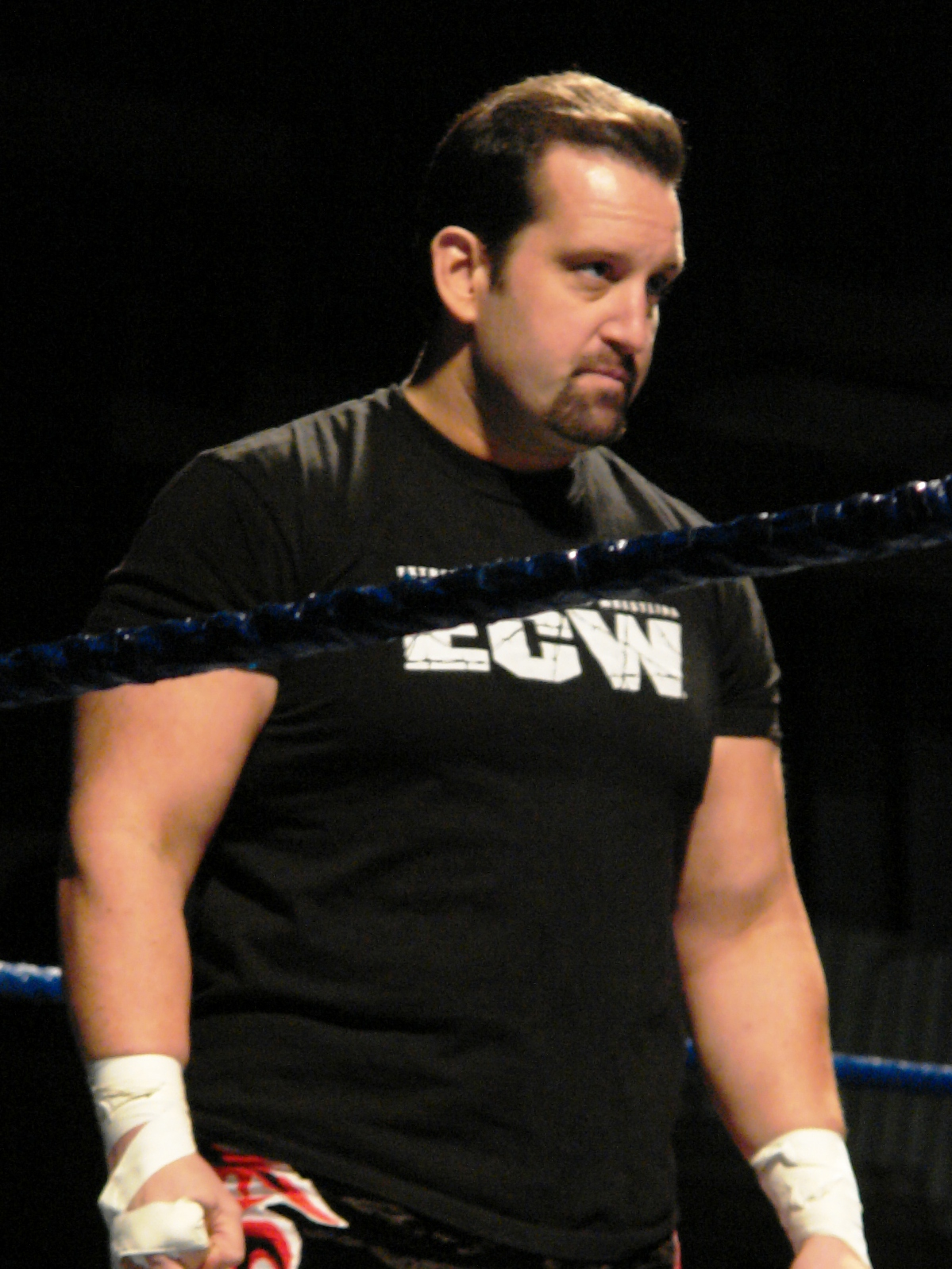 Tommy Dreamer at an ECW Live Event. Oshkosh, WI.